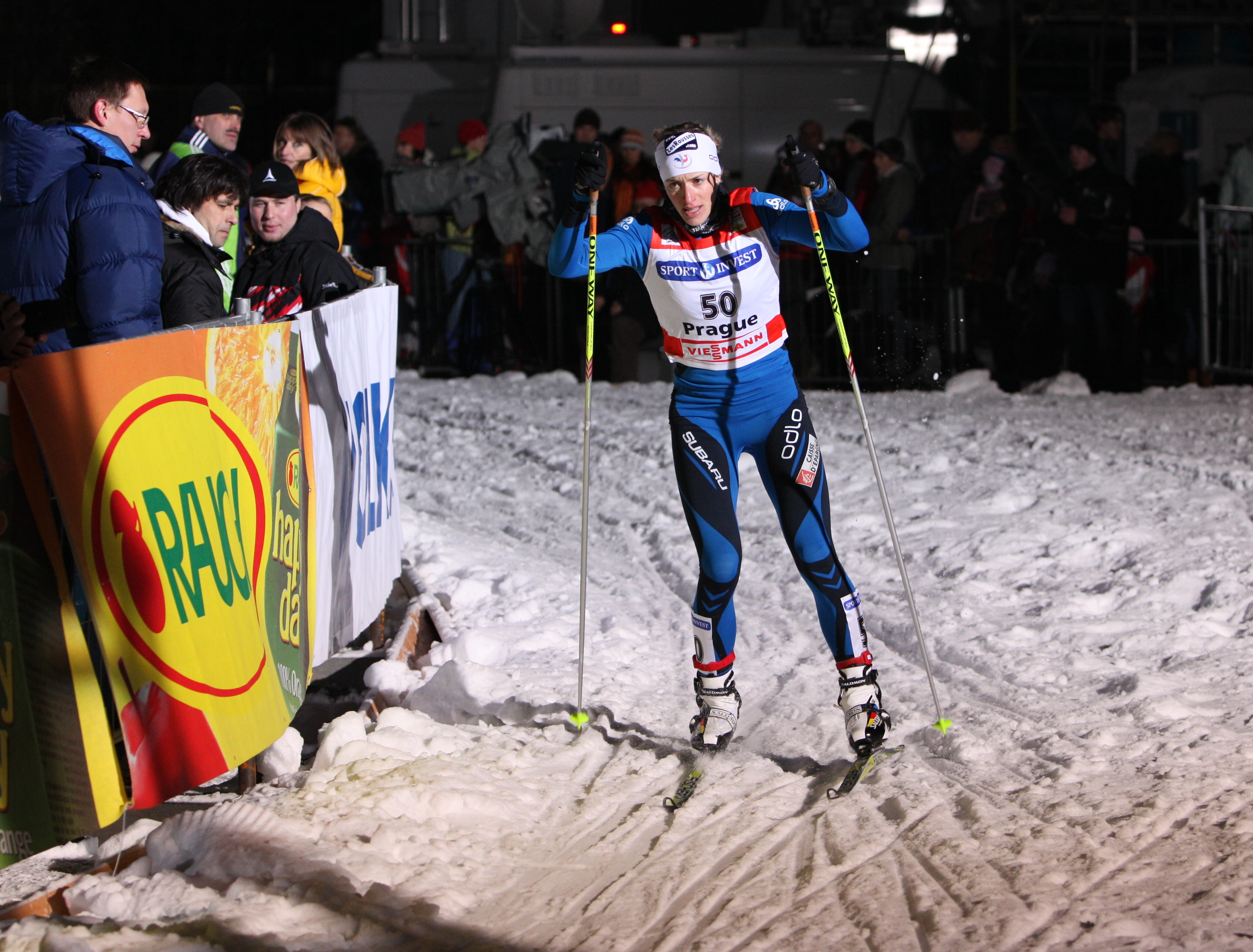 Aurore Cuinet competes at Ski Sprint Praha in 2010